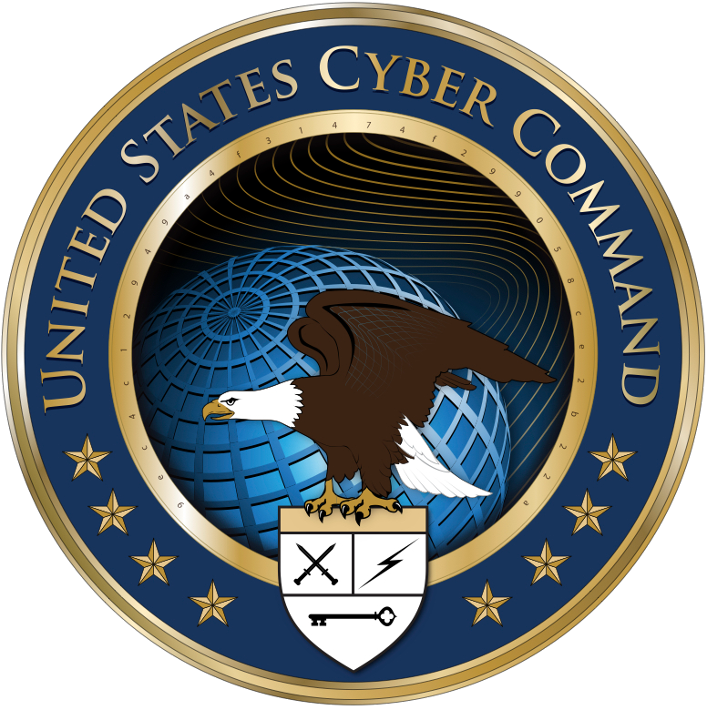 Seal of the USCC